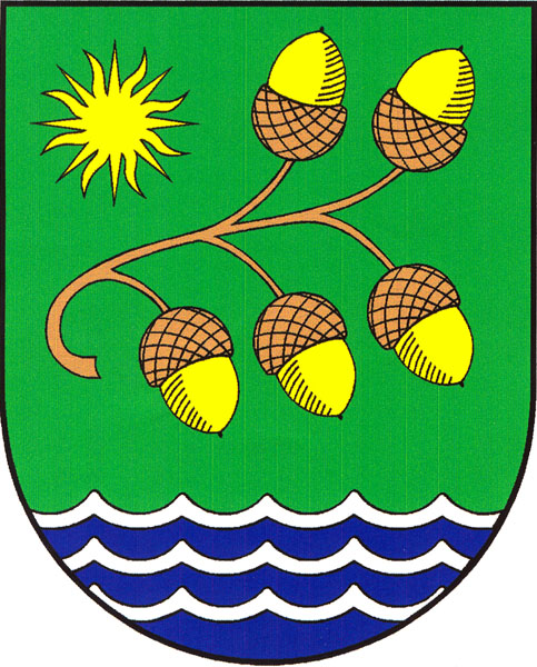 Municipal coat of arms of Rohatec village, Hodonín District, Czech Republic.